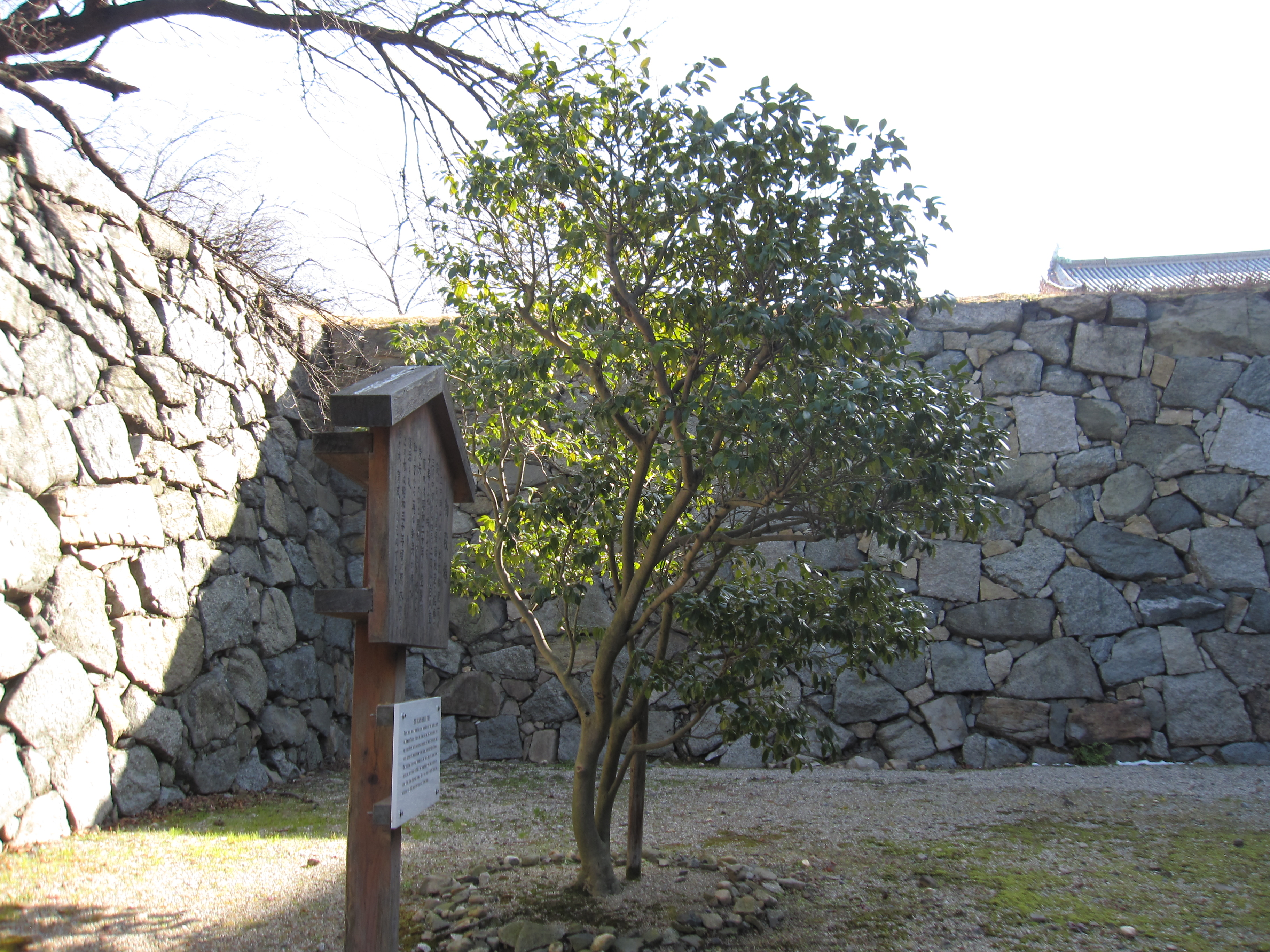 Nagoya Castle